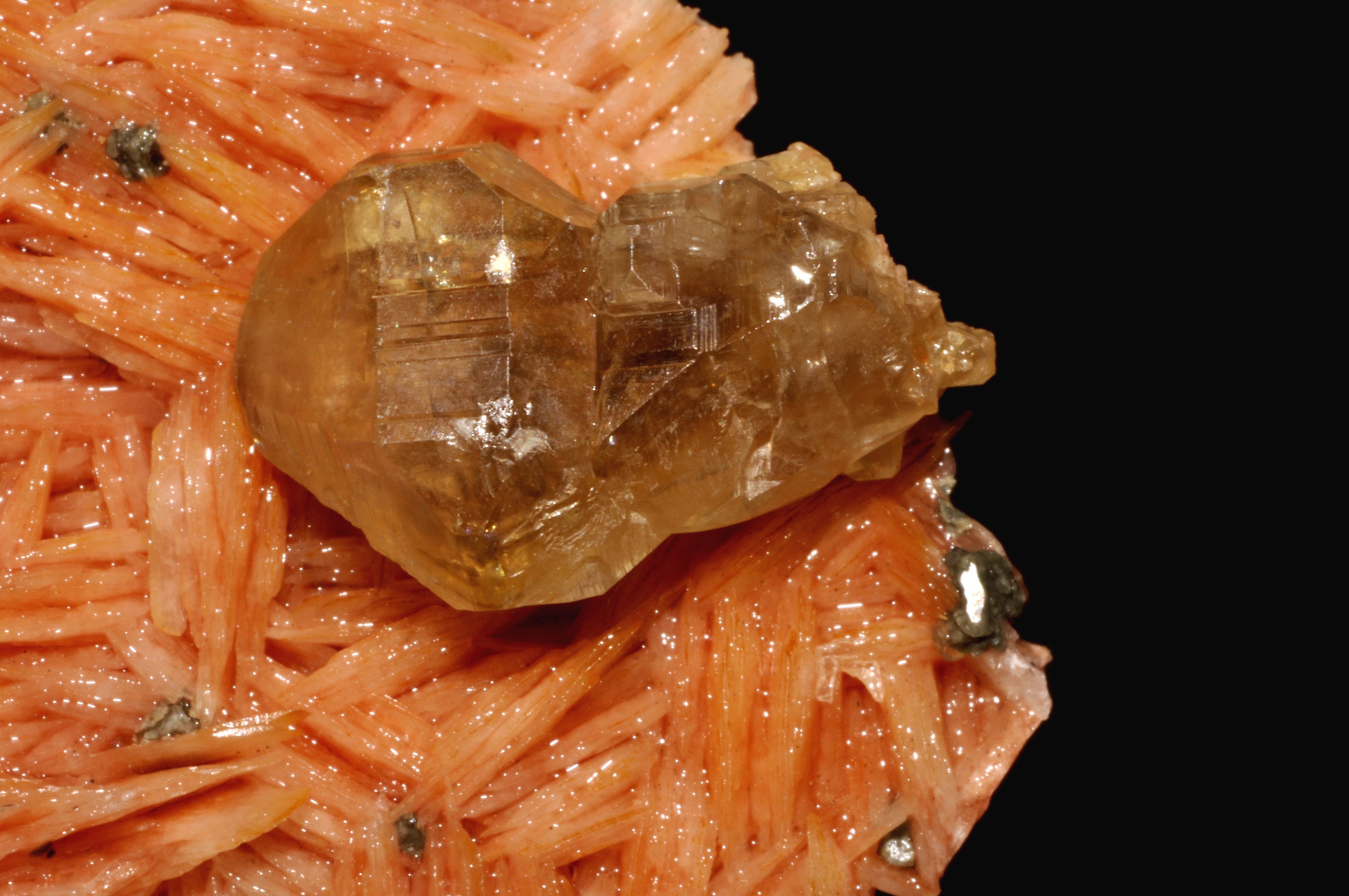 Crystal of Cerussite, Crystal of Baryte